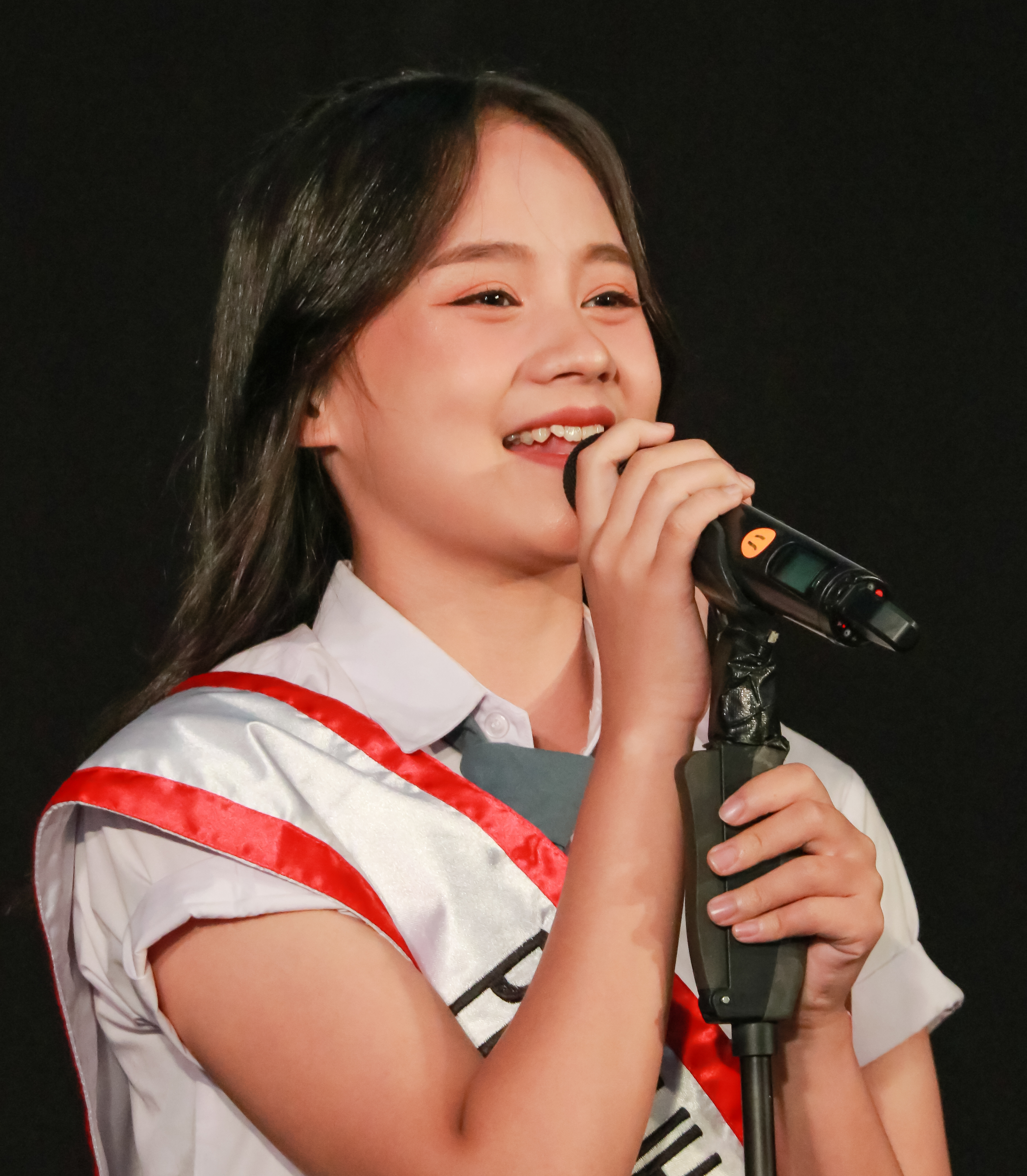 Rinanda Syahputri on 5 October 2019